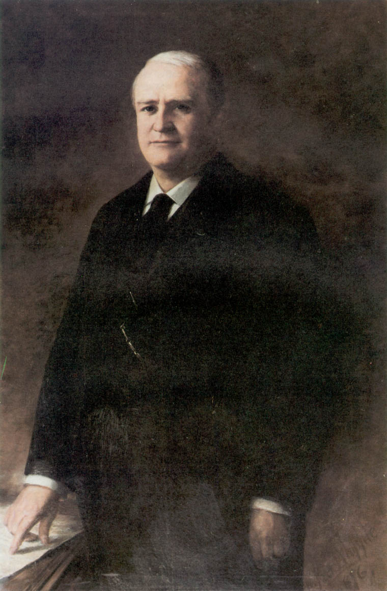 Stephen Benton Elkins, 38th United States Secretary of War. Oil on canvas, 42½" x 33½"